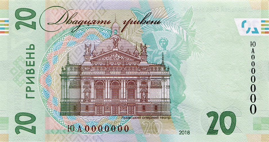 20 Ukrainian hryvnias, 2018.